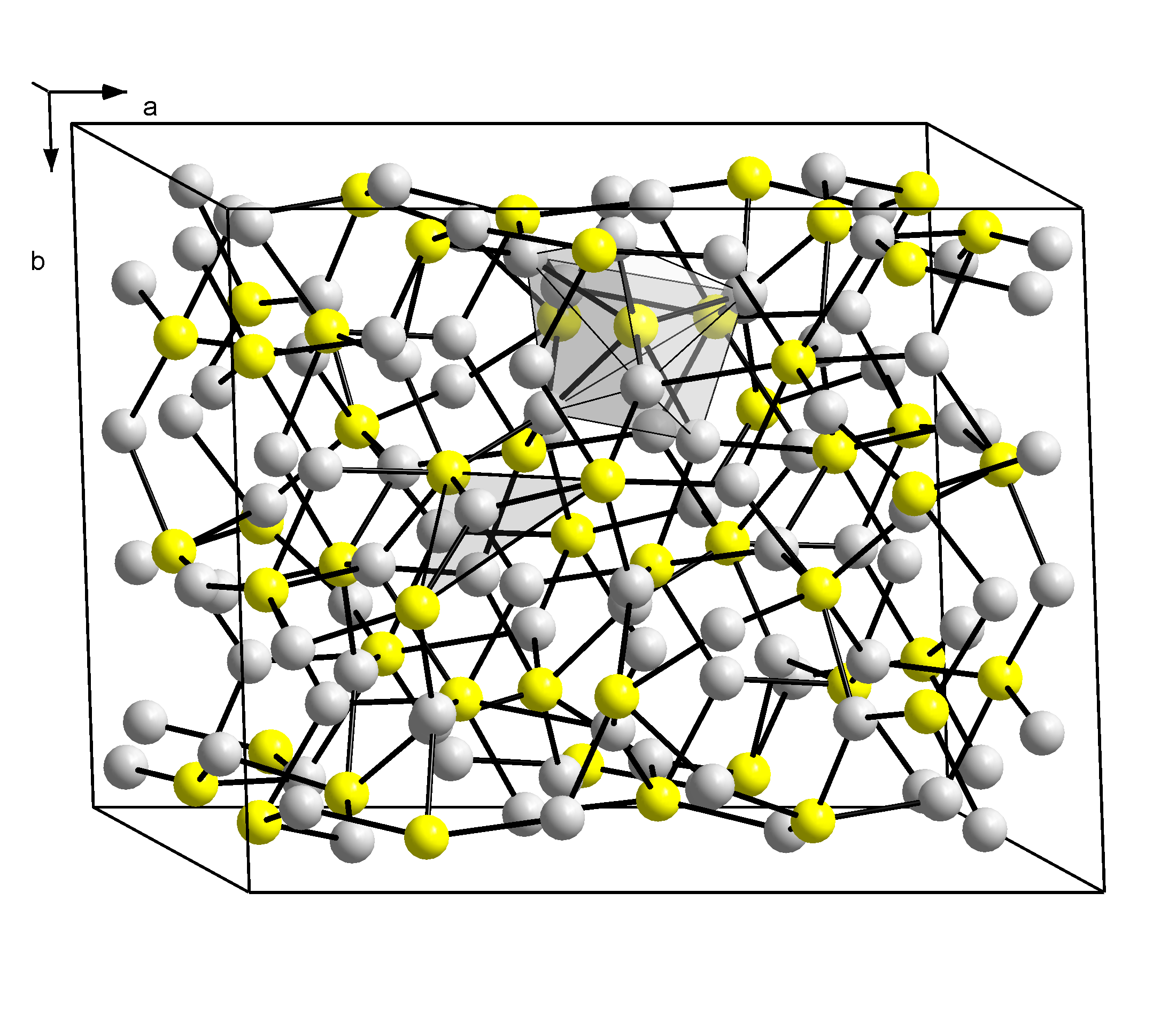 Chrystal structure of Chalcocite